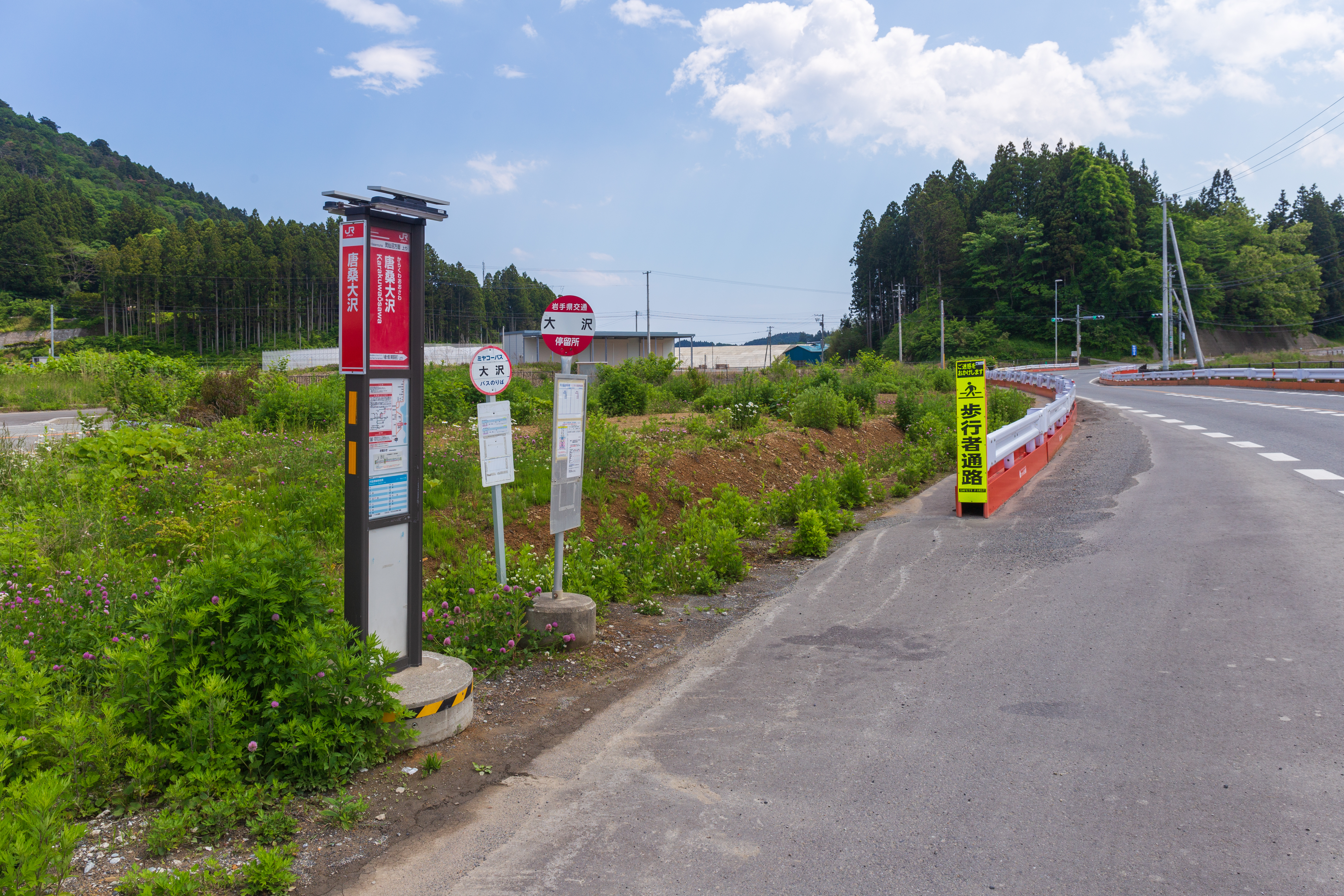 Karakuwaosawa Station on the East Japan Railway (JR East) Ofunato Line BRT for Kesennuma in Kesennuma City, Miyagi Prefecture, Japan